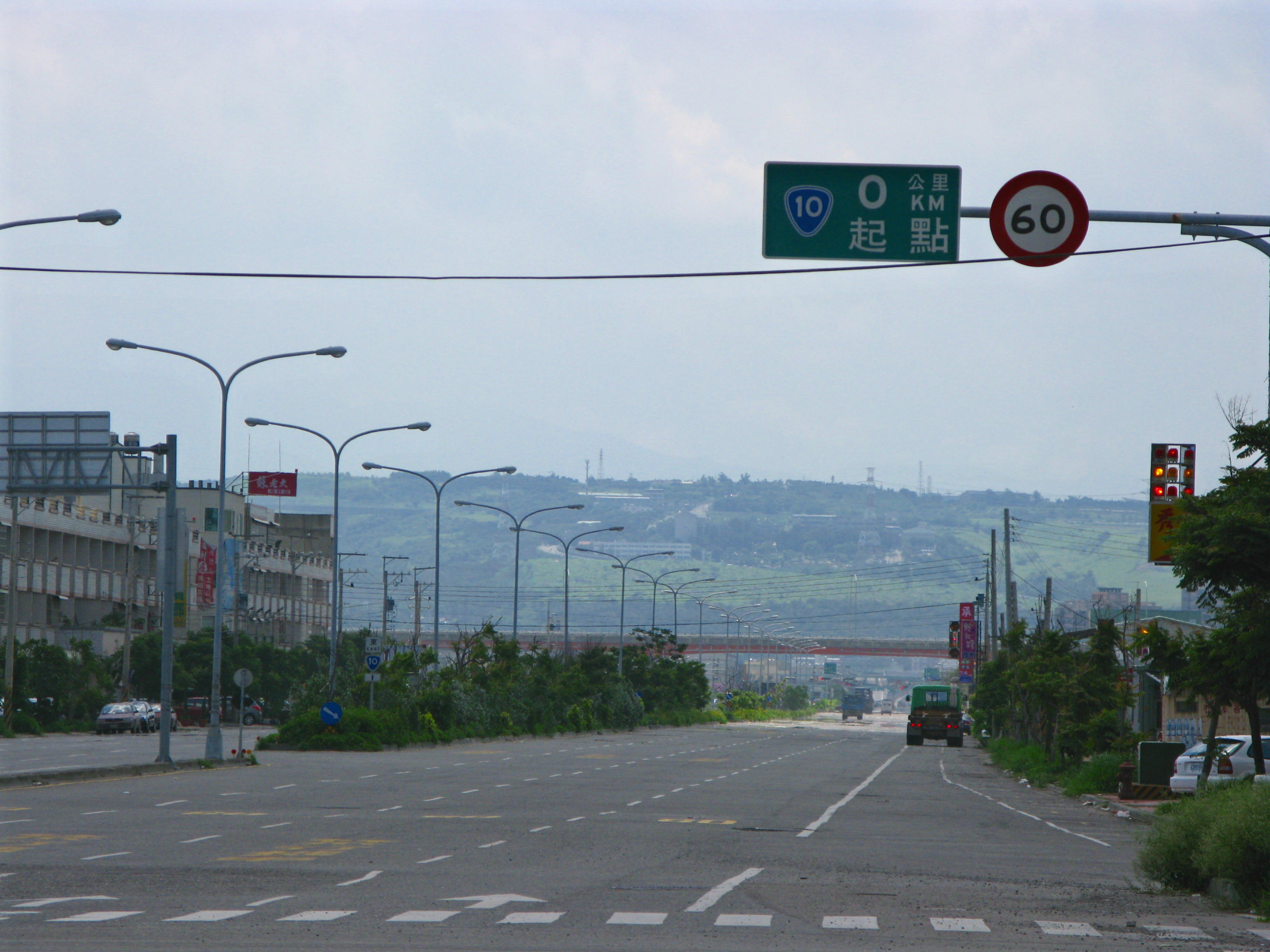 Starting point of the Taiwan Highway 10.